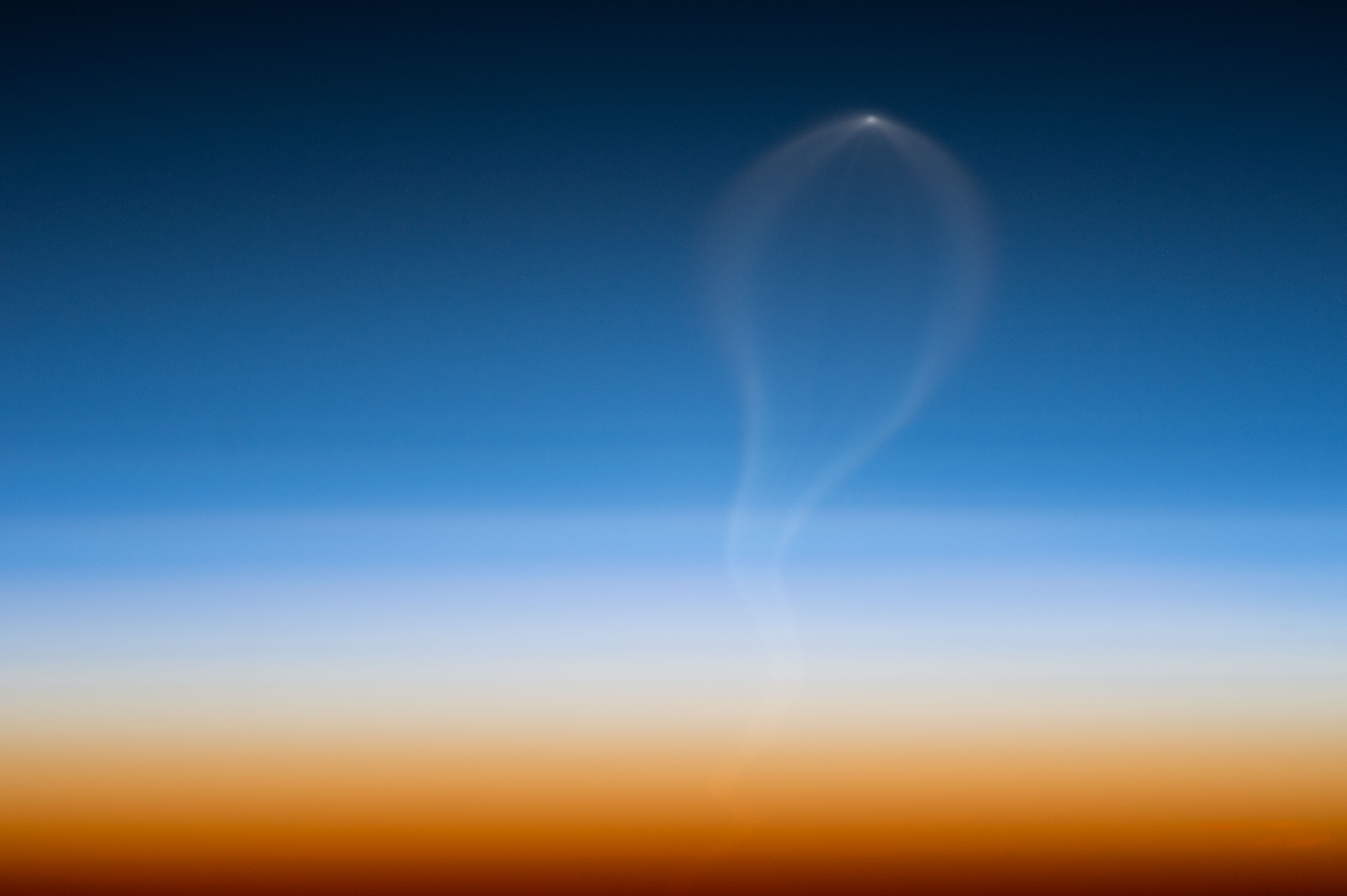 On December 6, 2015, astronauts aboard the International Space Station (ISS) were awaiting the launch of the Cygnus Commercial Resupply Services spacecraft. Cygnus was lofted into space by an Atlas V rocket, with engines that fire for about 18 minutes. This photograph was taken 4 minutes 12 seconds after launch as the crew looked southwest into the dusk sky. Using a powerful lens, an astronaut captured the spacecraft with the Atlas engines still firing and long tendrils of exhaust trailing back toward Cape Canaveral in Florida. The spacecraft is a tiny object and would otherwise have been invisible to the crew. This photo of the launch was snapped when the ISS was far to the north-northeast over the Atlantic Ocean, just east of Newfoundland.